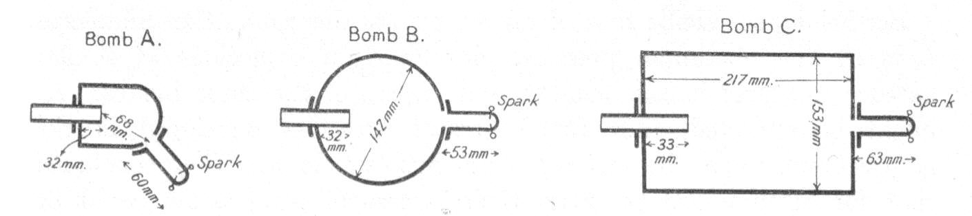 own scan of very old 1860 diagram